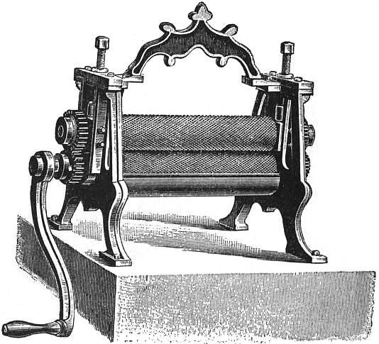 Foundation Machine. (From Cheshire’s Bees and Bee-keeping, Scientific and Practical.) Illustration from 1911 Encyclopædia Britannica, article Bee